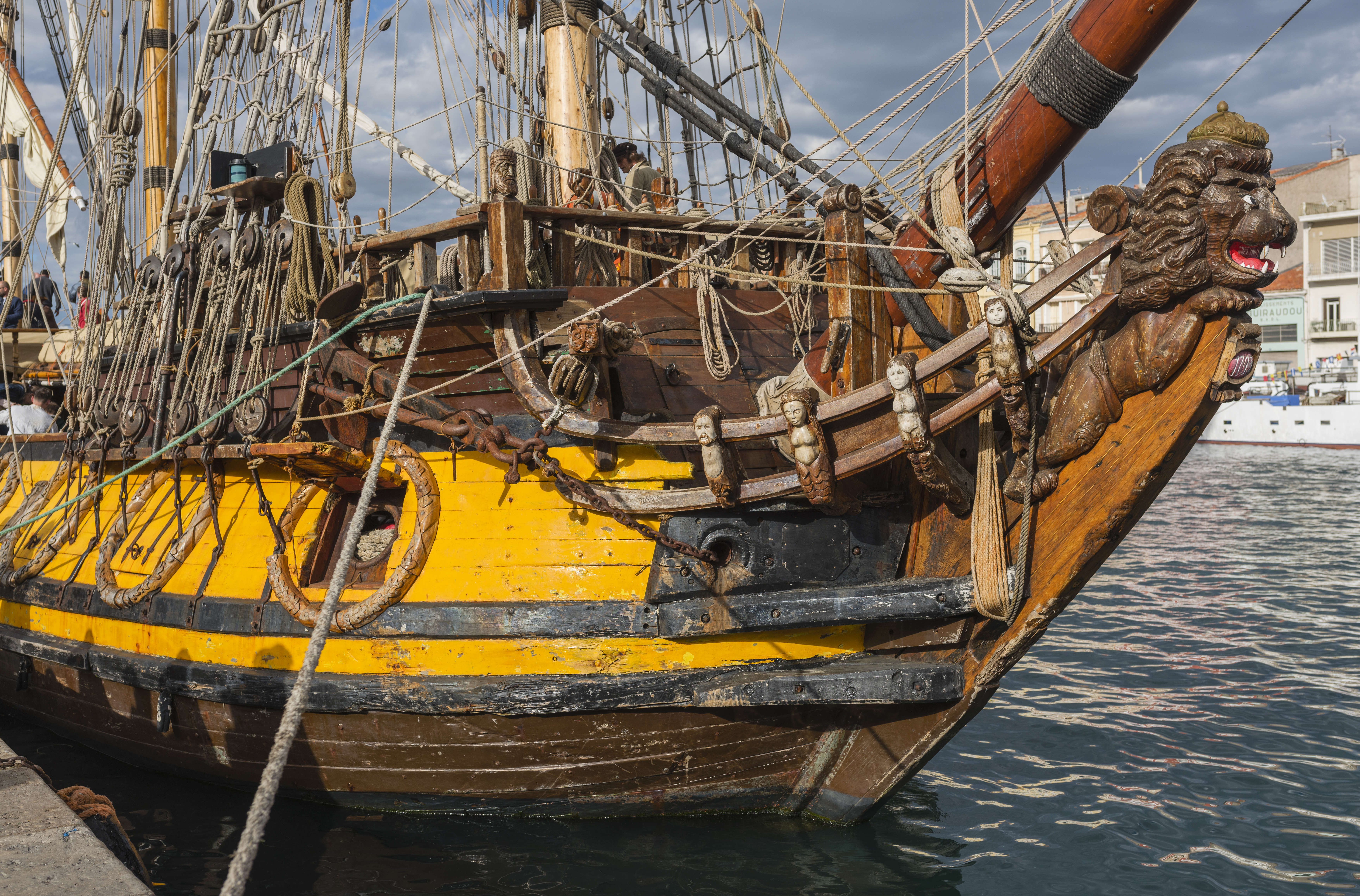 Bow of the Shtandart (ship, 1999). During the event "Escale à Sète 2016". Sète, Hérault, France